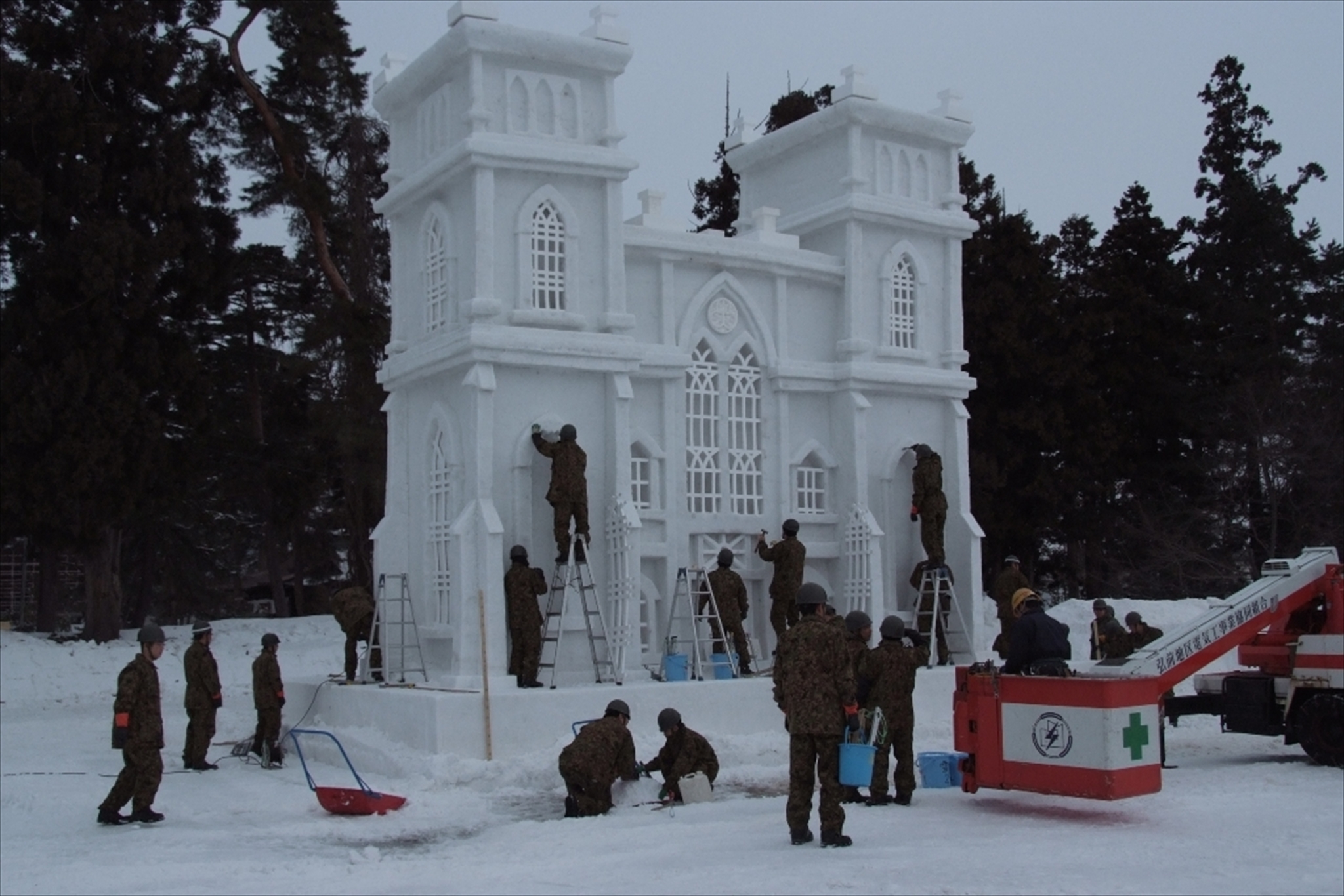 Title 第三十七回弘前城雪燈籠まつり 作業風景 (2)_R.JPG Album Events and Public Relations (イベント・行事・広報活動等) 第３７回弘前城雪燈籠まつり・雪像制作協力